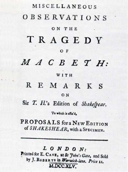 Samuel Johnson's Miscellaneous Observations title page